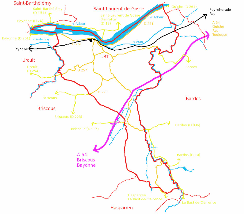 Map of Urt : Red : Borders Blue : Rivers Orange and yellow : Roads Purple : Highway